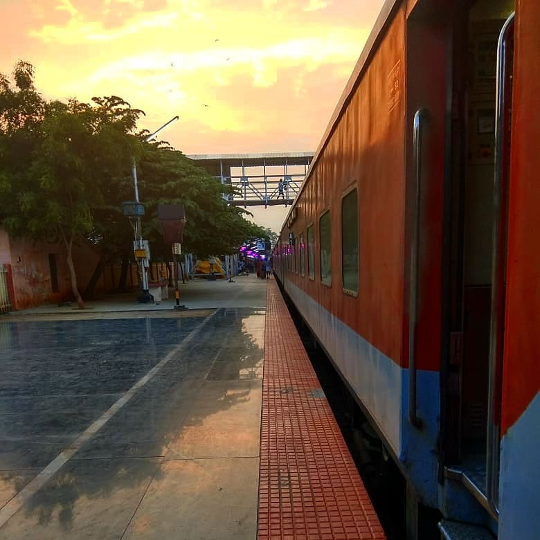 Podhigai SF Exp